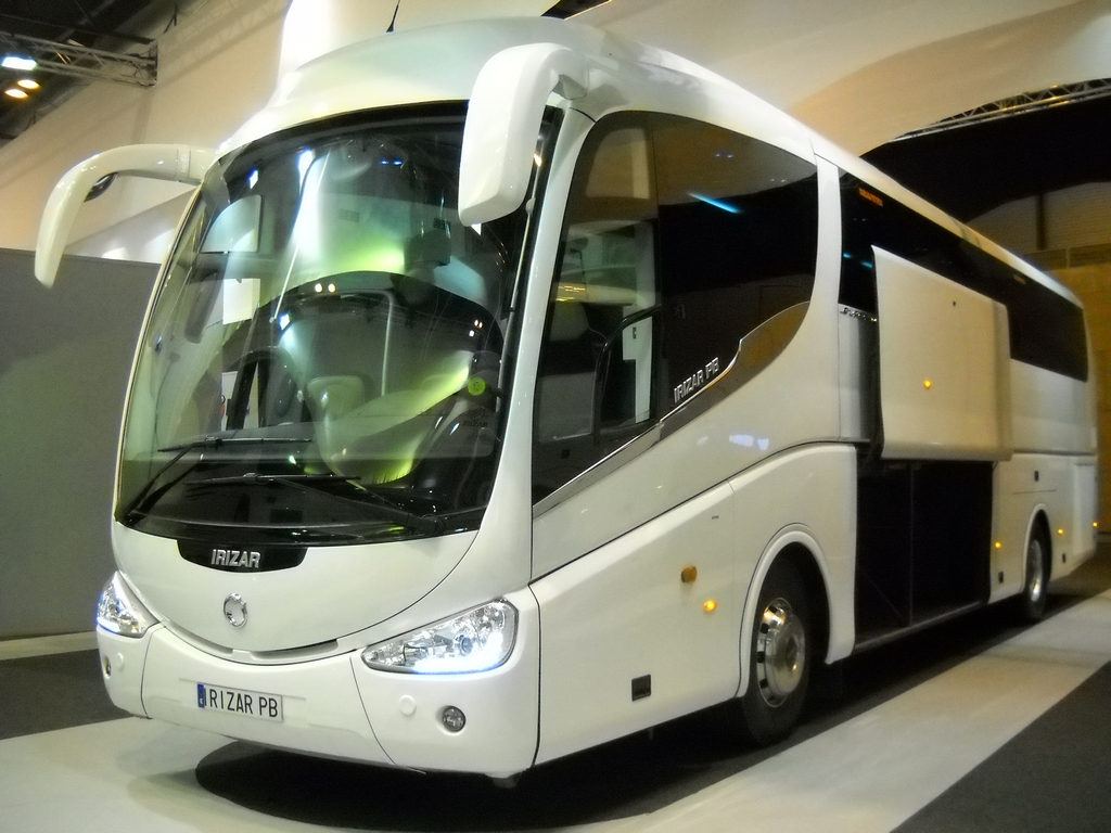 Irizar PB coach with Irisbus chassis in Madrid, Spain. FIAA 2010.